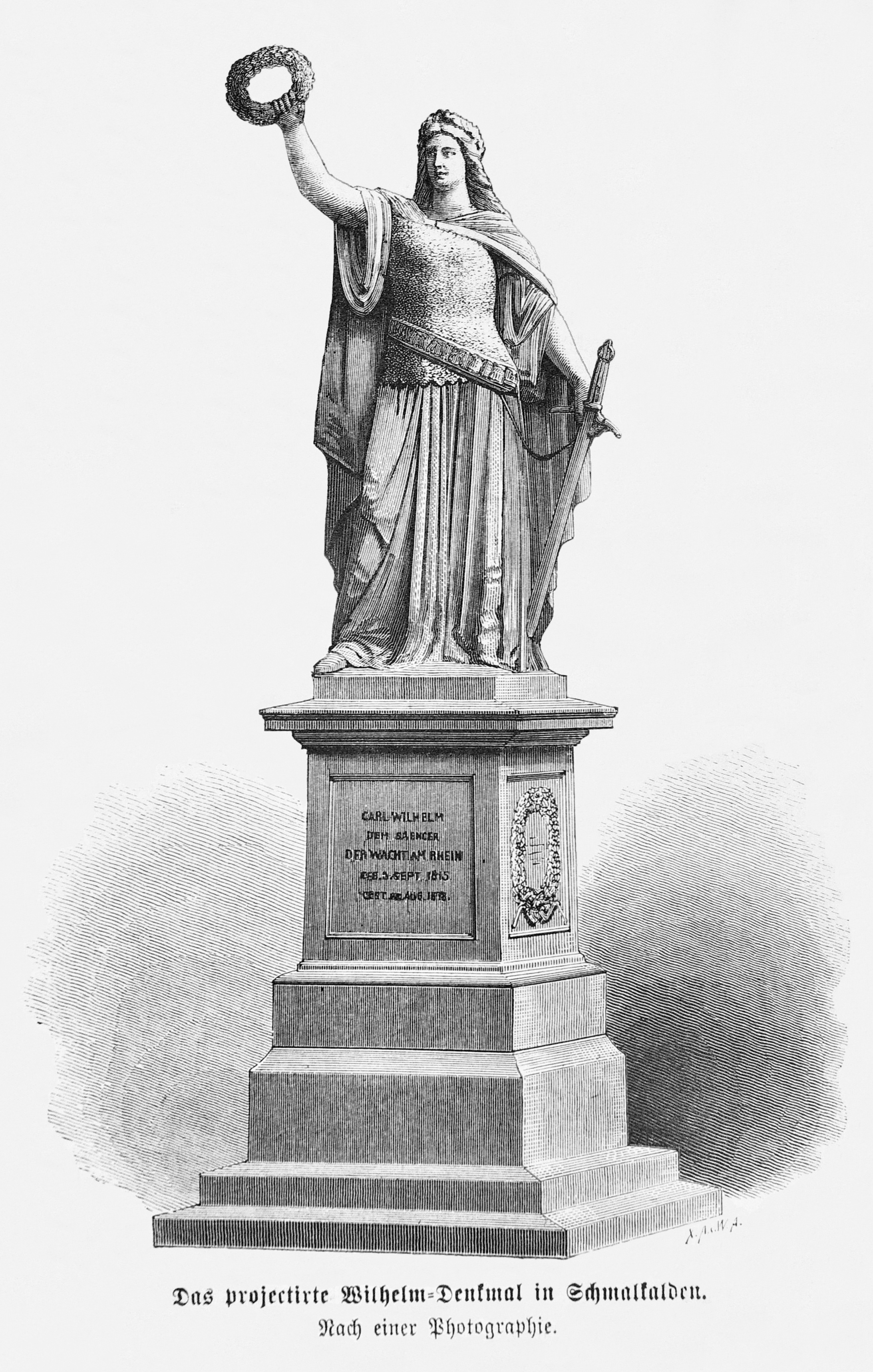 caption: "Das projectirte Wilhelm-Denkmal in Schmalkalden.Nach einer Photographie."